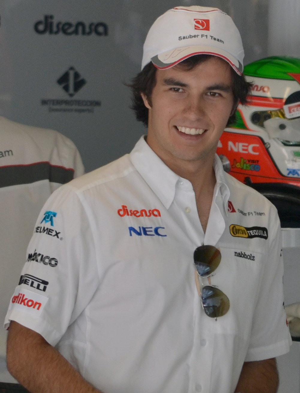 Sauber F1 driver Sergio Perez in the garage during Thursday's pit lane walkabout session at the 2011 Italian Grand Prix.